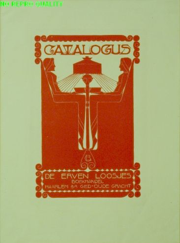 Cover of a catalogue of the bookstore De Erven Loosjes in Haarlem, the Netherlands